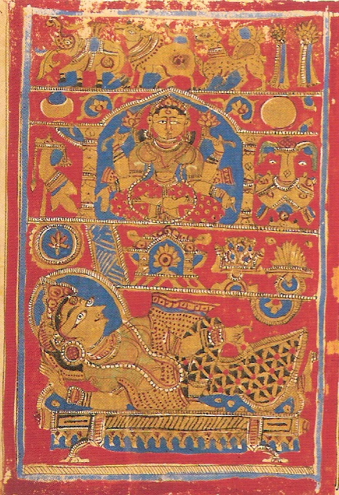 Queen Trishla, Mahaviras mother has 14 auspicious dreams. Folio 4 from Kalpasutra series, loose leaf manuscript, Patan, Gujarat. c. 1472.